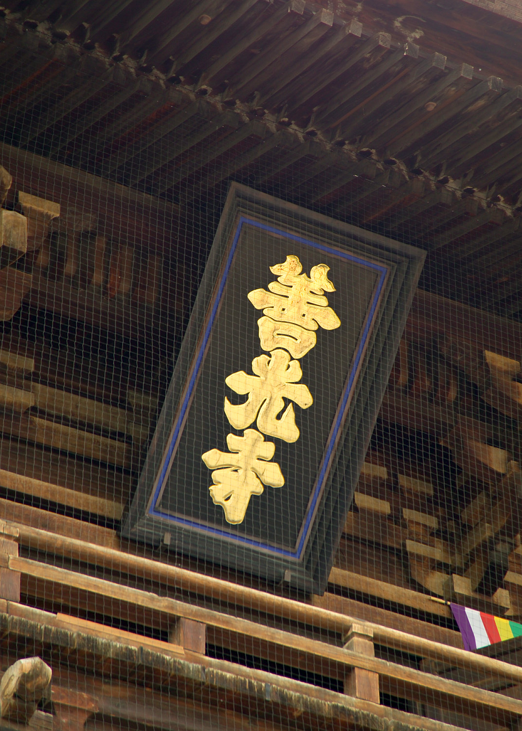 Tablet reading 「善光寺」 "Zenkō-ji" on sanmon of temple of the same name, Nagano, Japan